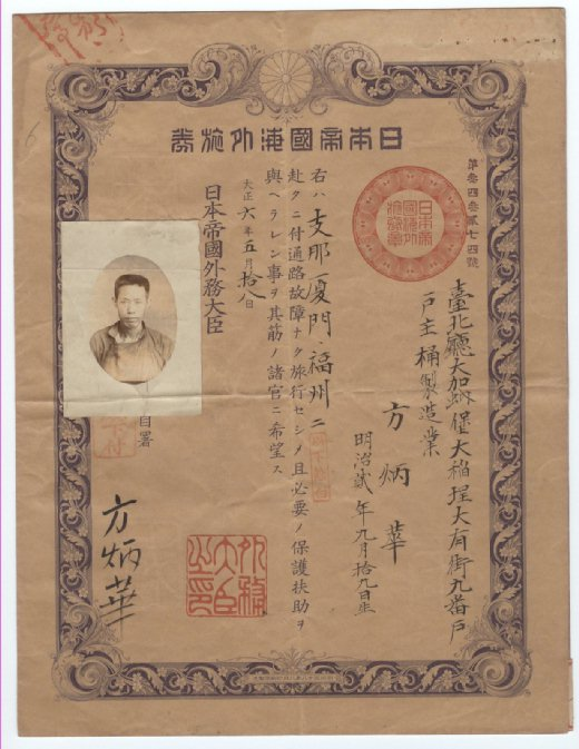 Imperial Japanese Overseas Passport No. 343274 issued in Taiwan on May 18, 1917.中文（台灣）: 西元1917年（大正6年）5月18日在台灣簽發的日本帝國海外旅券第343274號，持券人方炳華。